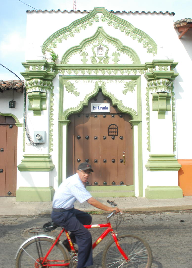 Green door of old mansion, León, Nicaragua